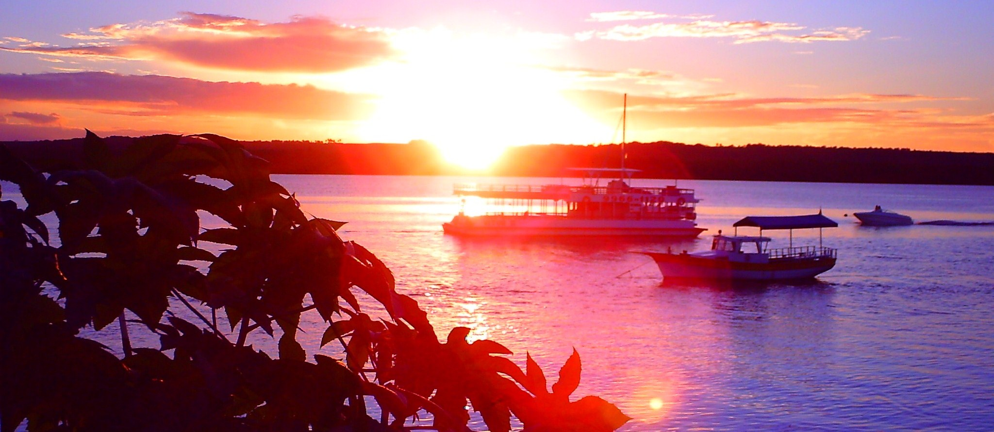 Sunset at Jacaré Beach, Cabedelo, Paraíba, Brazil